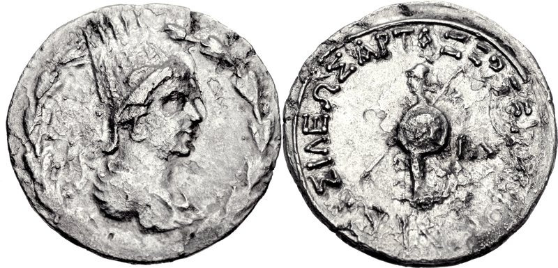 Artaxias II. 34-20 BC. AR Drachm (21mm, 3.21 g, 1h). Artaxata (Artashat) mint. Draped bust right, wearing earring and five-pointed Armenian tiara decorated with comet star; all within laurel wreath / Athena advancing left, holding transverse spear and round shield; IΔ to right, monogram in exergue. SCADA Group 1 (a2/p2 – this coin cited and illustrated); CAA -; AC -. VF, some roughness.